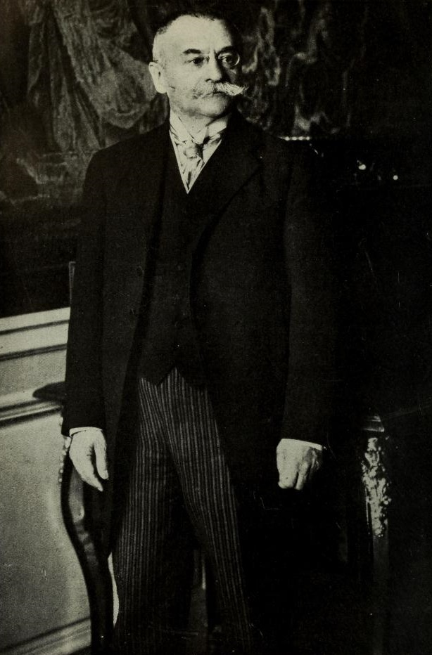 Portrait of Théophile Delcassé